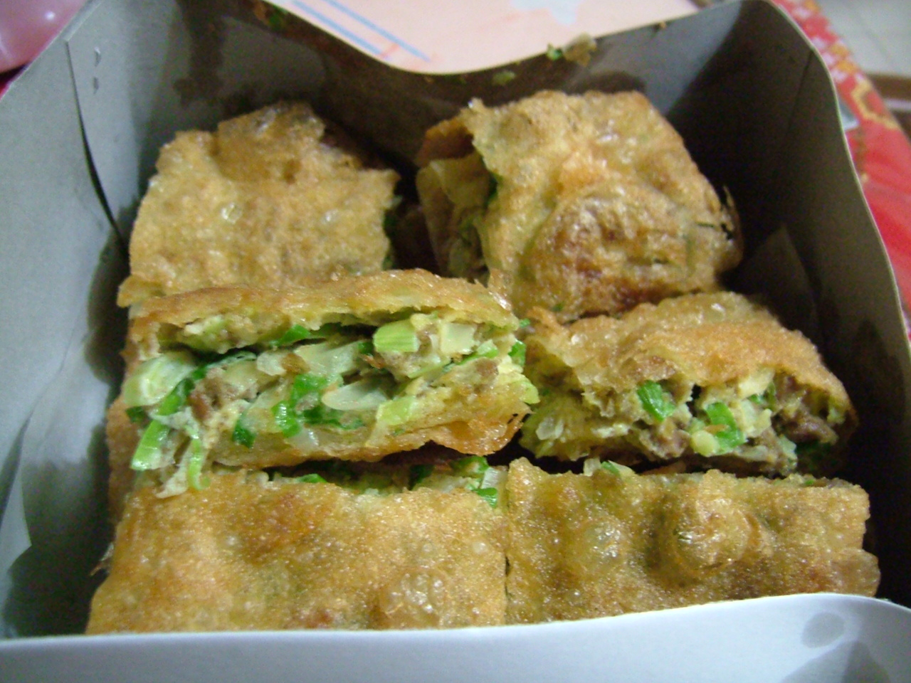 Martabak telur with duck egg, minced meat and lots of green onion.